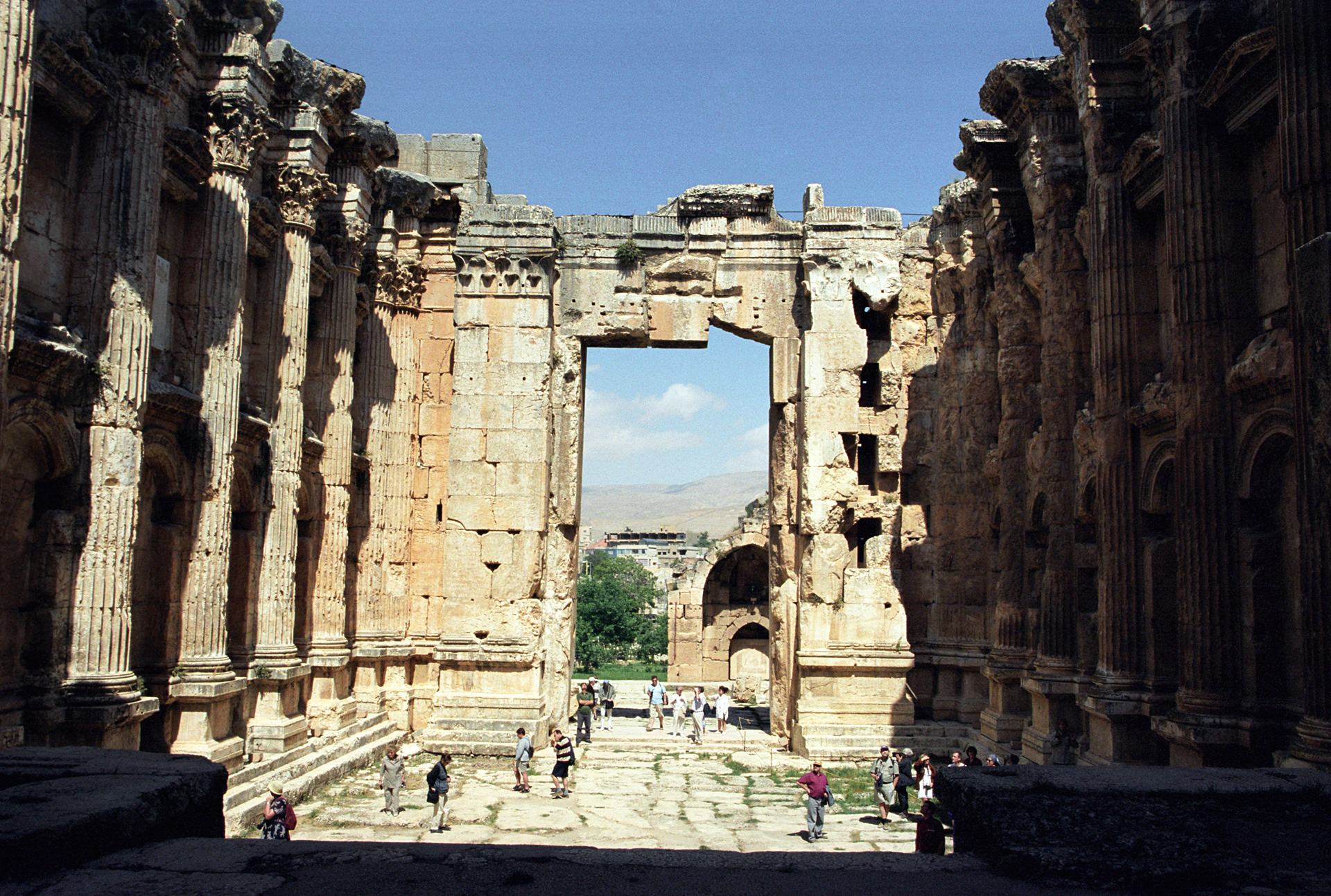 Baalbek, Temple of Bacchus